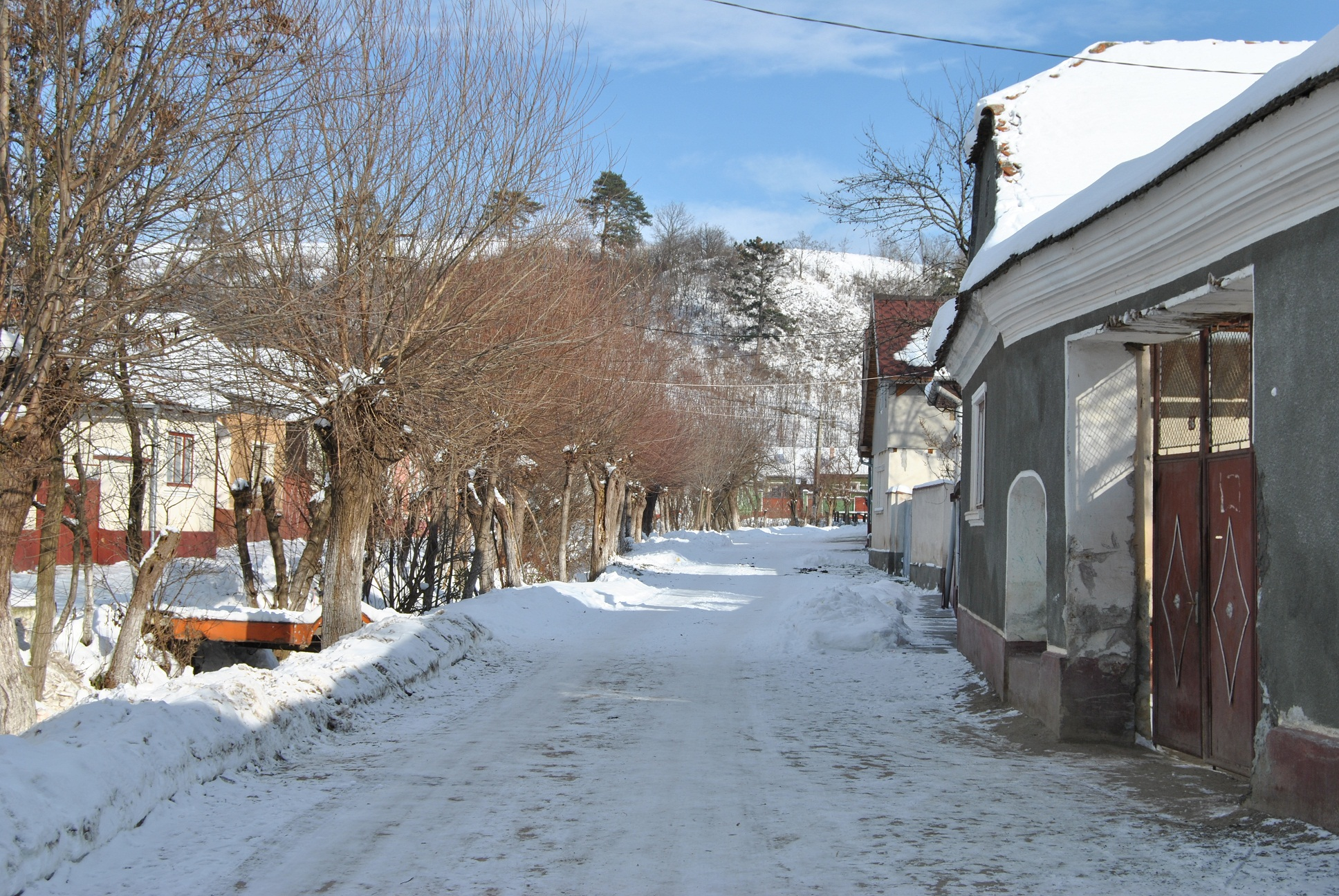 A street in Ariușd, Covasna, Romania